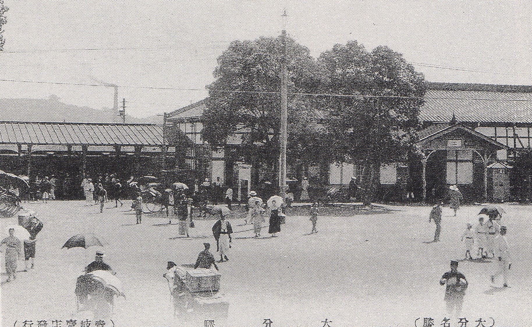 Oita station of Nippo main line, Japanese Governmental Railway, which was taken in Taisho era, Oita city Oita prefecture Japan.